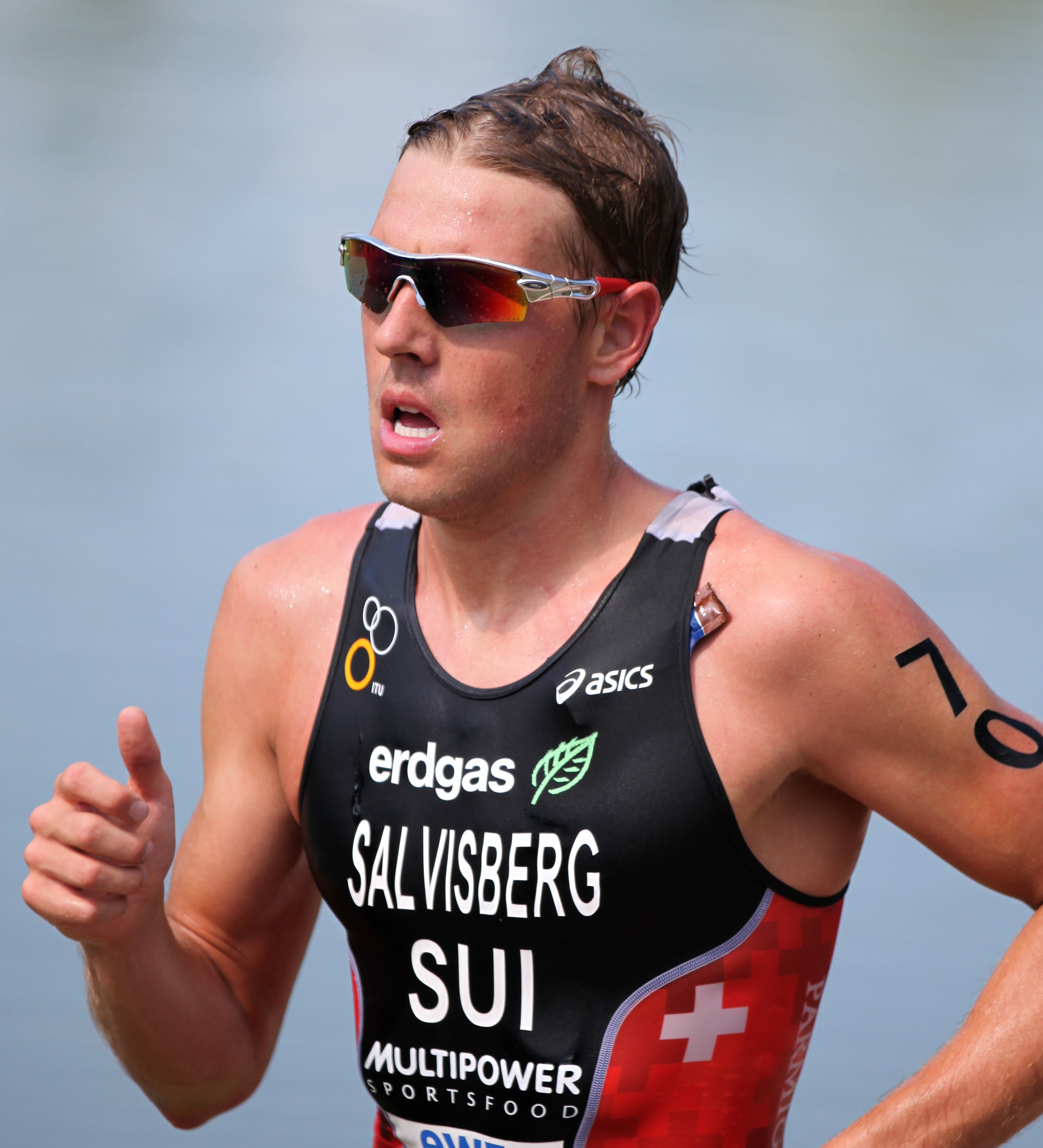 Andrea Salvisberg at the World Cup triathlon in Tiszaújváros.